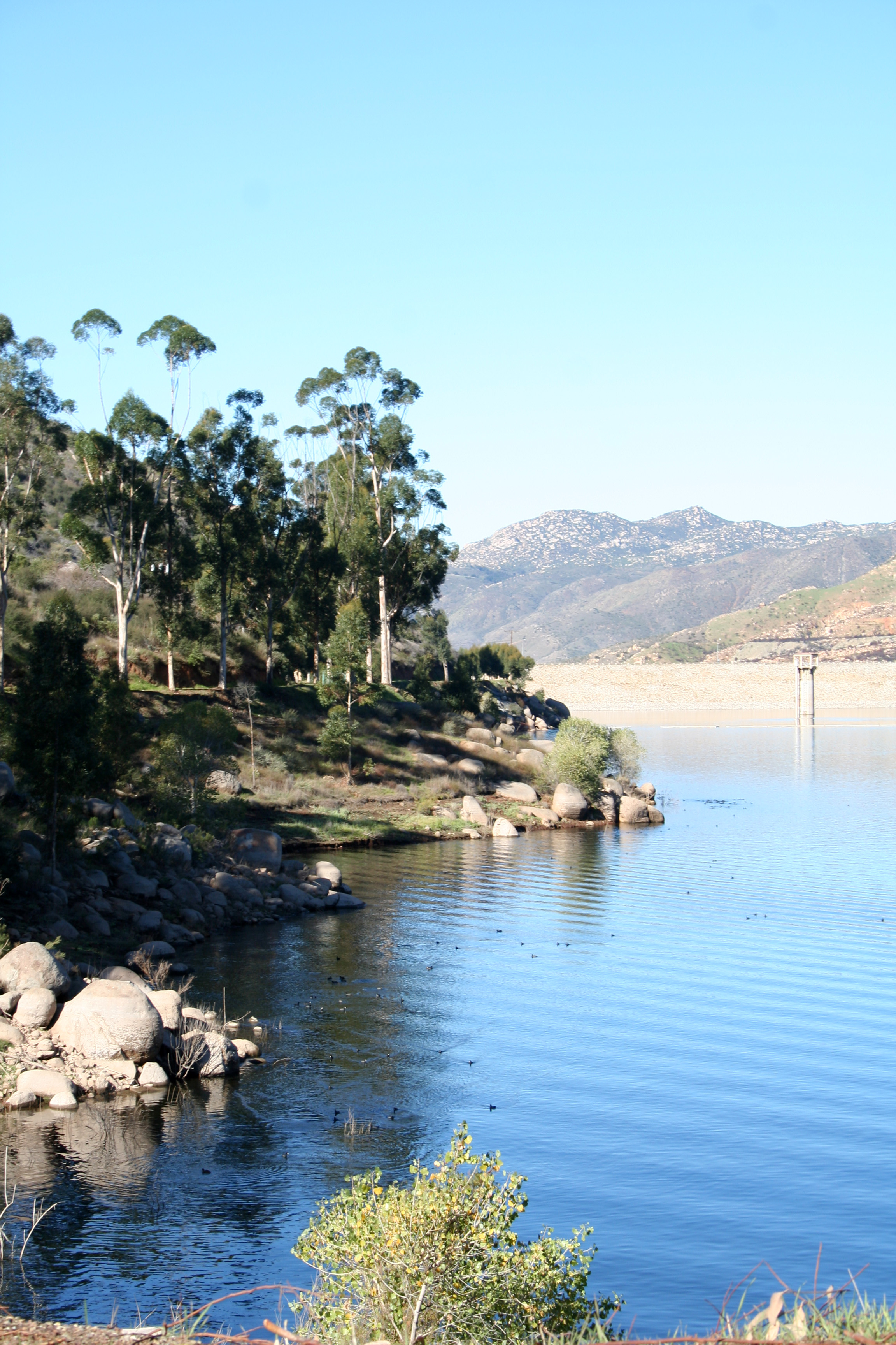 El Capitan Reseviour, El Monte Valley, Lakeside Ca, Osprey, San Diego County